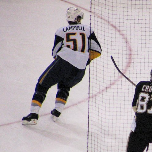 Picture of Brian Campbell during a preseason game on Friday, September 28, 2007 against the Pittsburgh Penguins